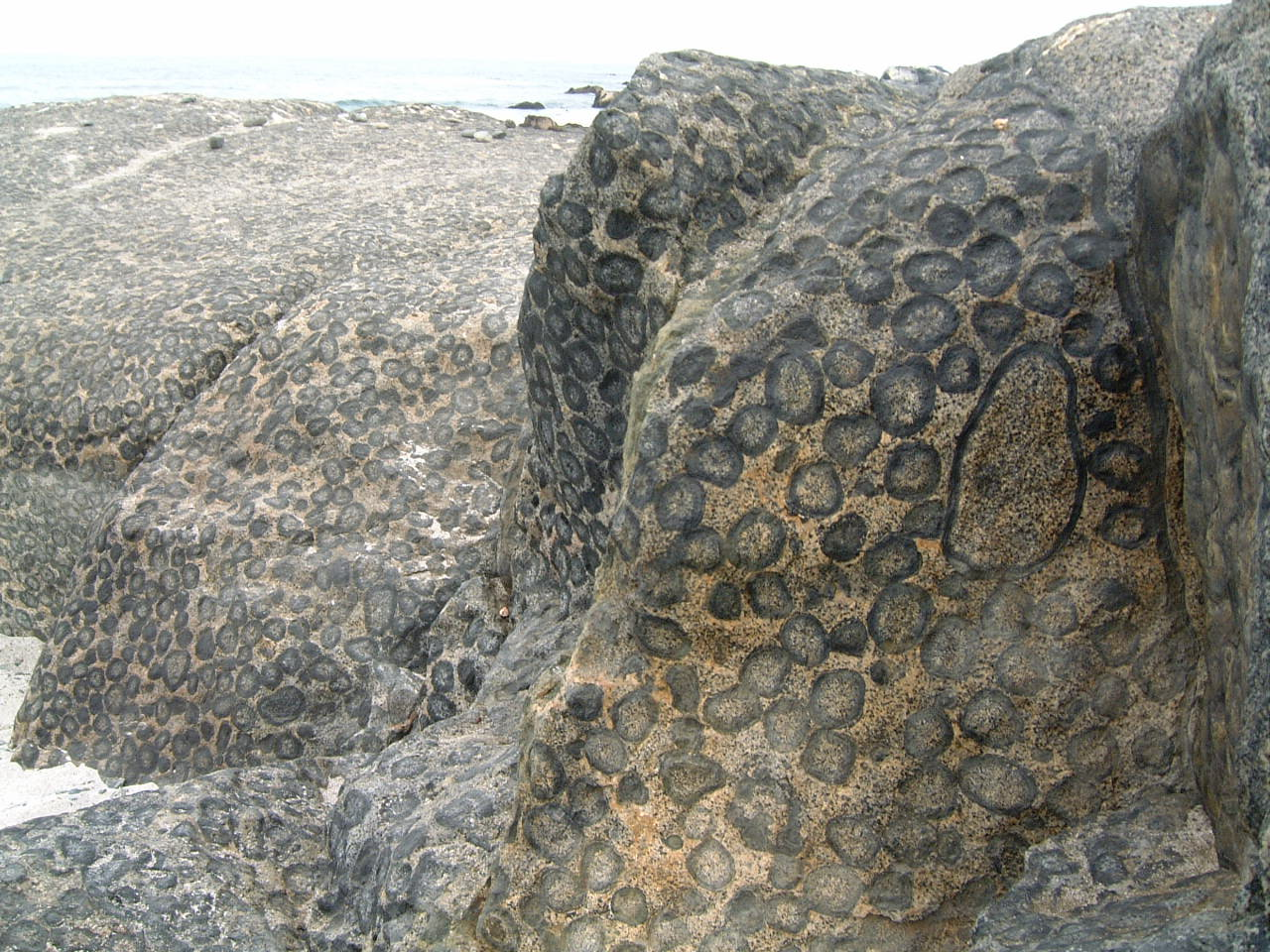 Outcrop of orbicular granite — in the Orbicular Granite Nature Sanctuary. A National monument in the Atacama Region, near Caldera, Chile.